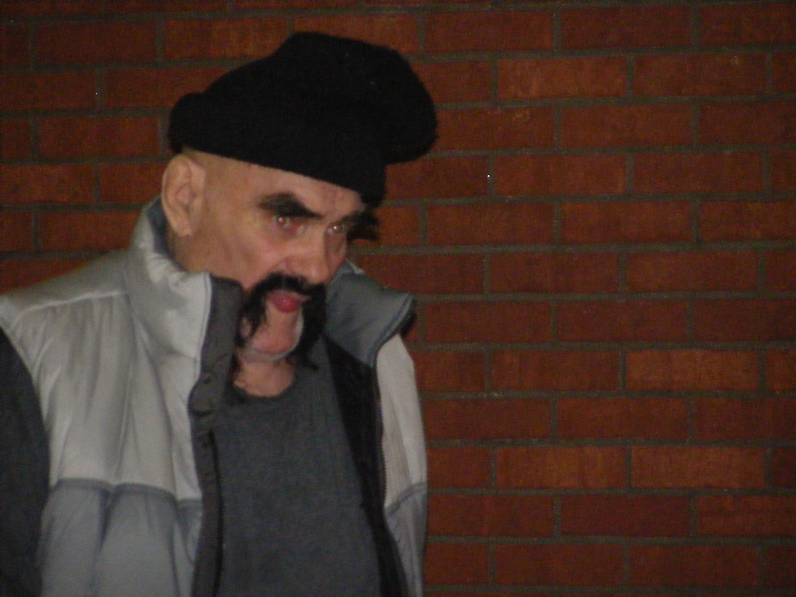 Ox Baker at an NLP show on January 23, 2010 in Peabody, MA.